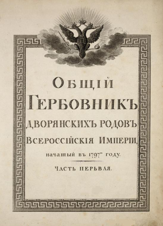 More than 200 year old printed matter